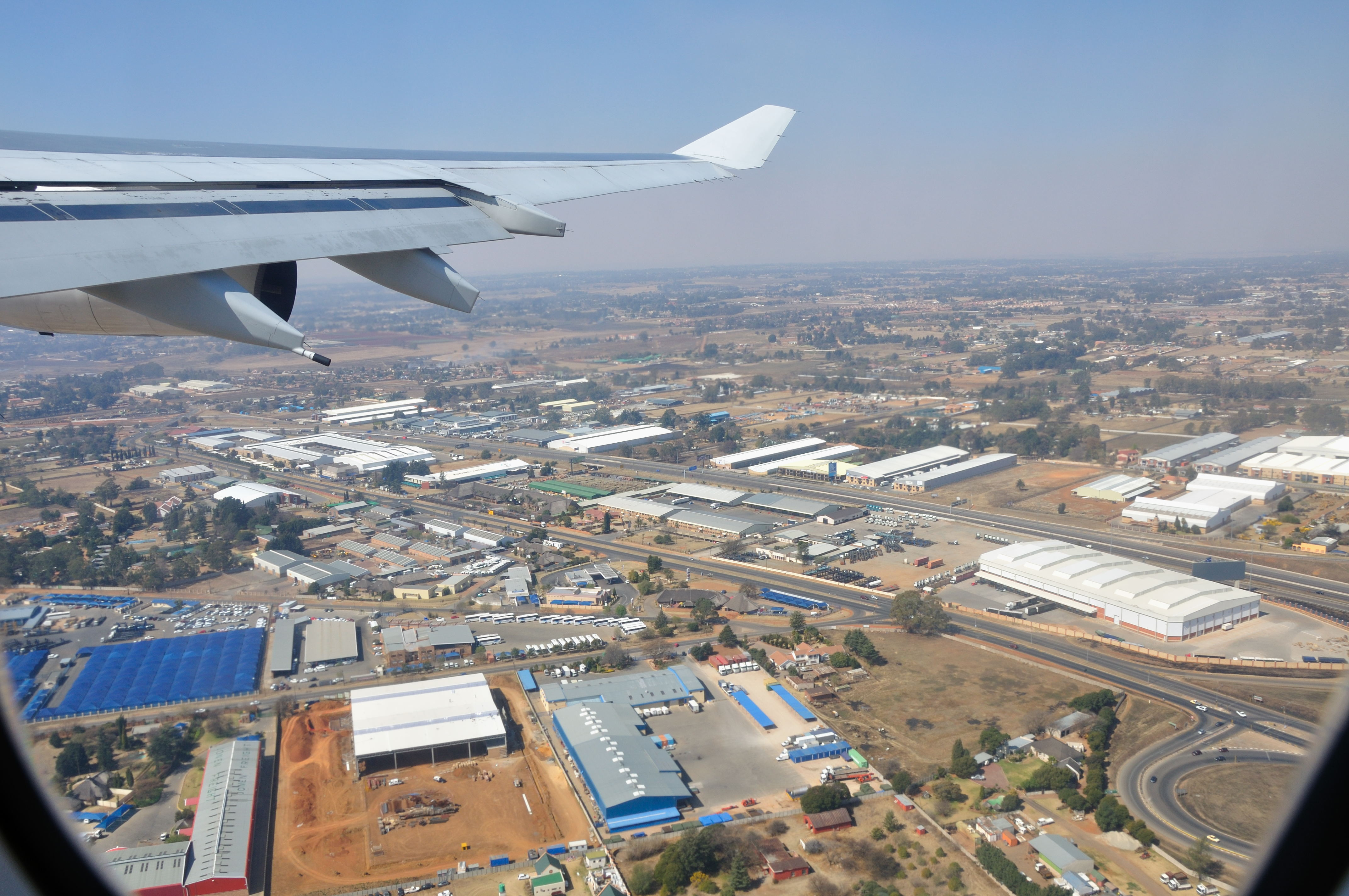 South Africa, Kempton Park after take-off at Johannesburg Airport